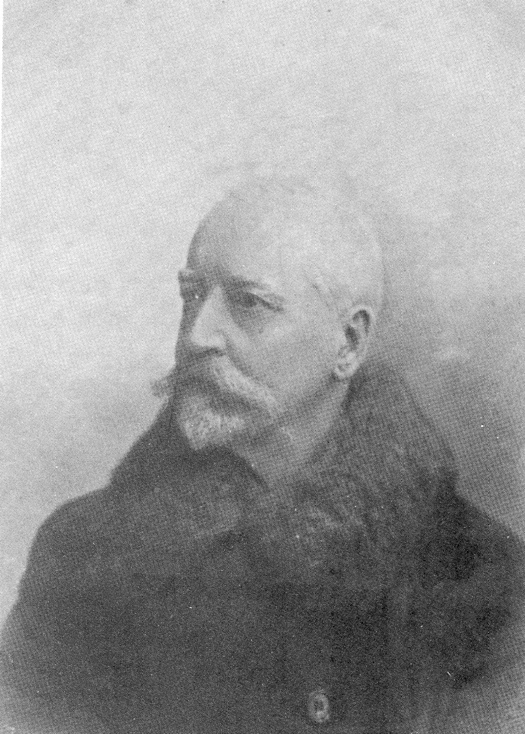 Gustaw_baron_Manteuffel-Szoege. Polish historian, ethnographer